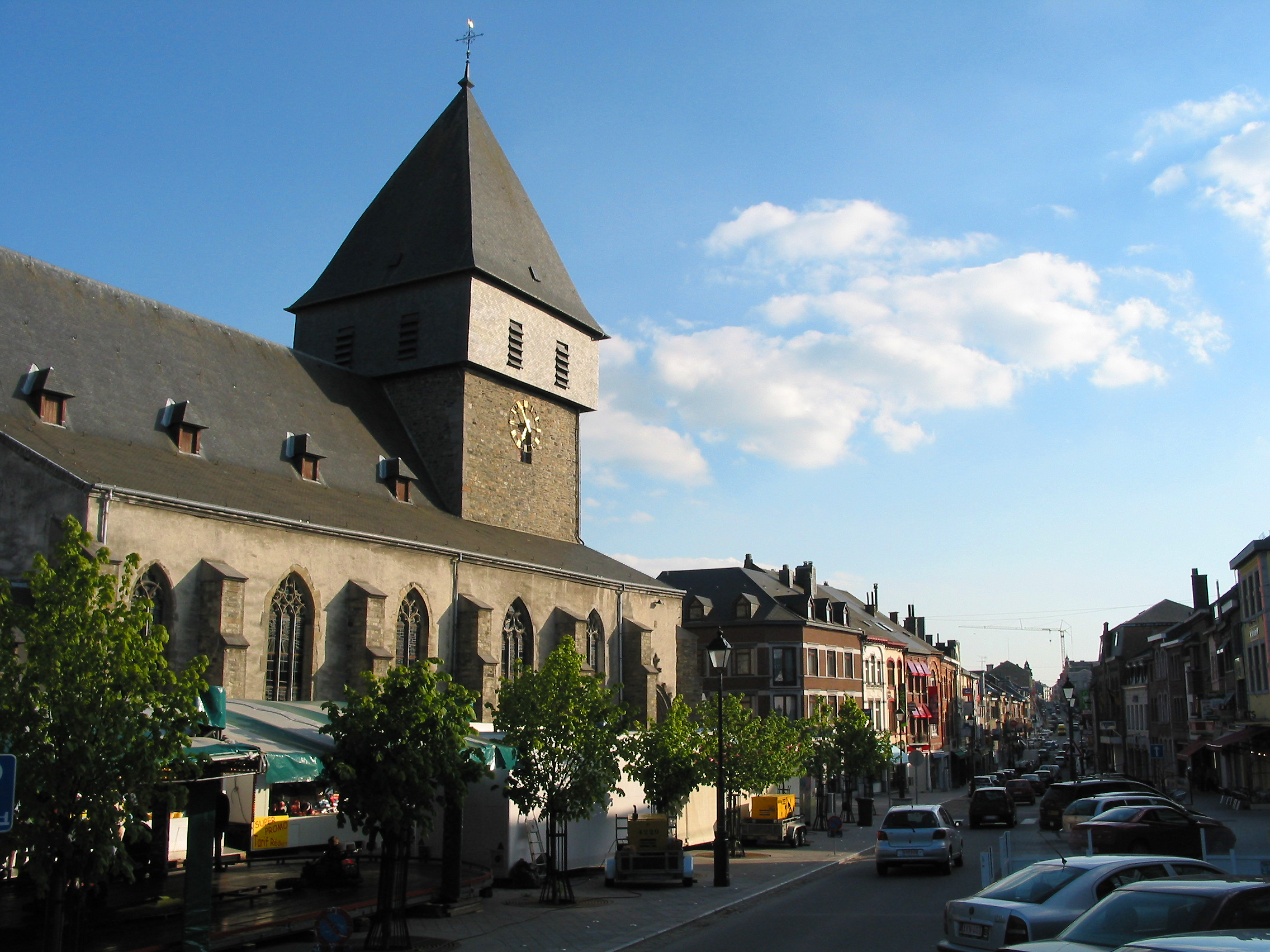 Bastogne, Belgium: St Peter’s church (11th–16th centuries).